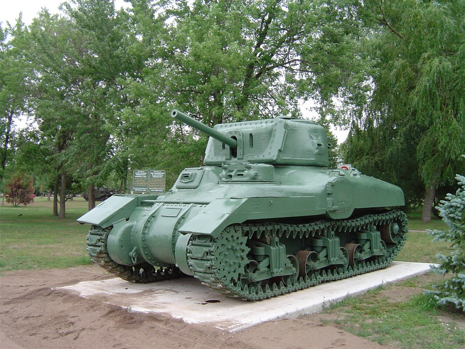 Canadian Ram Mk.2 (early production) tank, in Worthington Tank Museum at CFB Borden (Ontario, Canada).